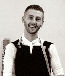 Photography of designer Estanislao